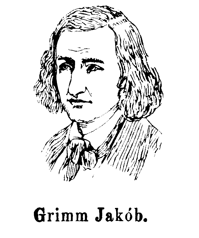 Jakob Grimm